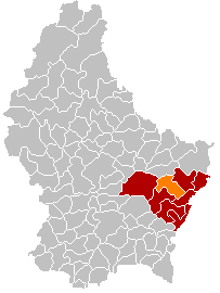 Own edit of Kanton GrevenmacherLocatie.png